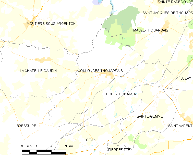 Map of French municipality Coulonges-Thouarsais